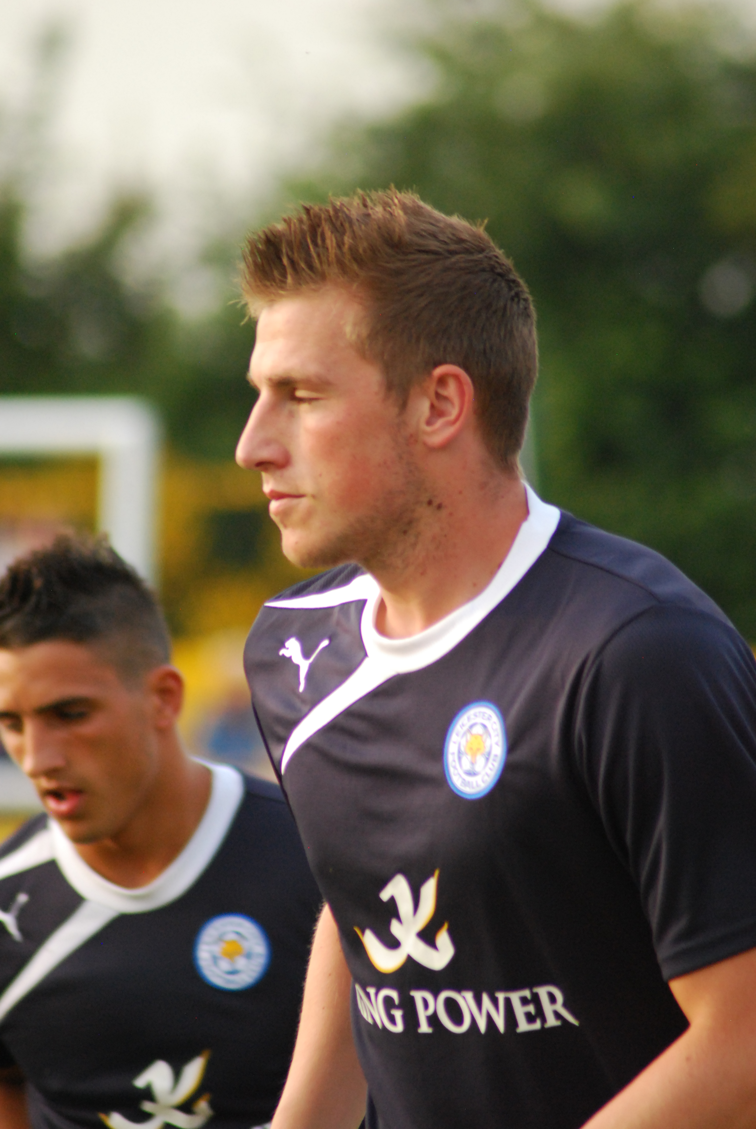 Pre-Season vs Leamington Spa